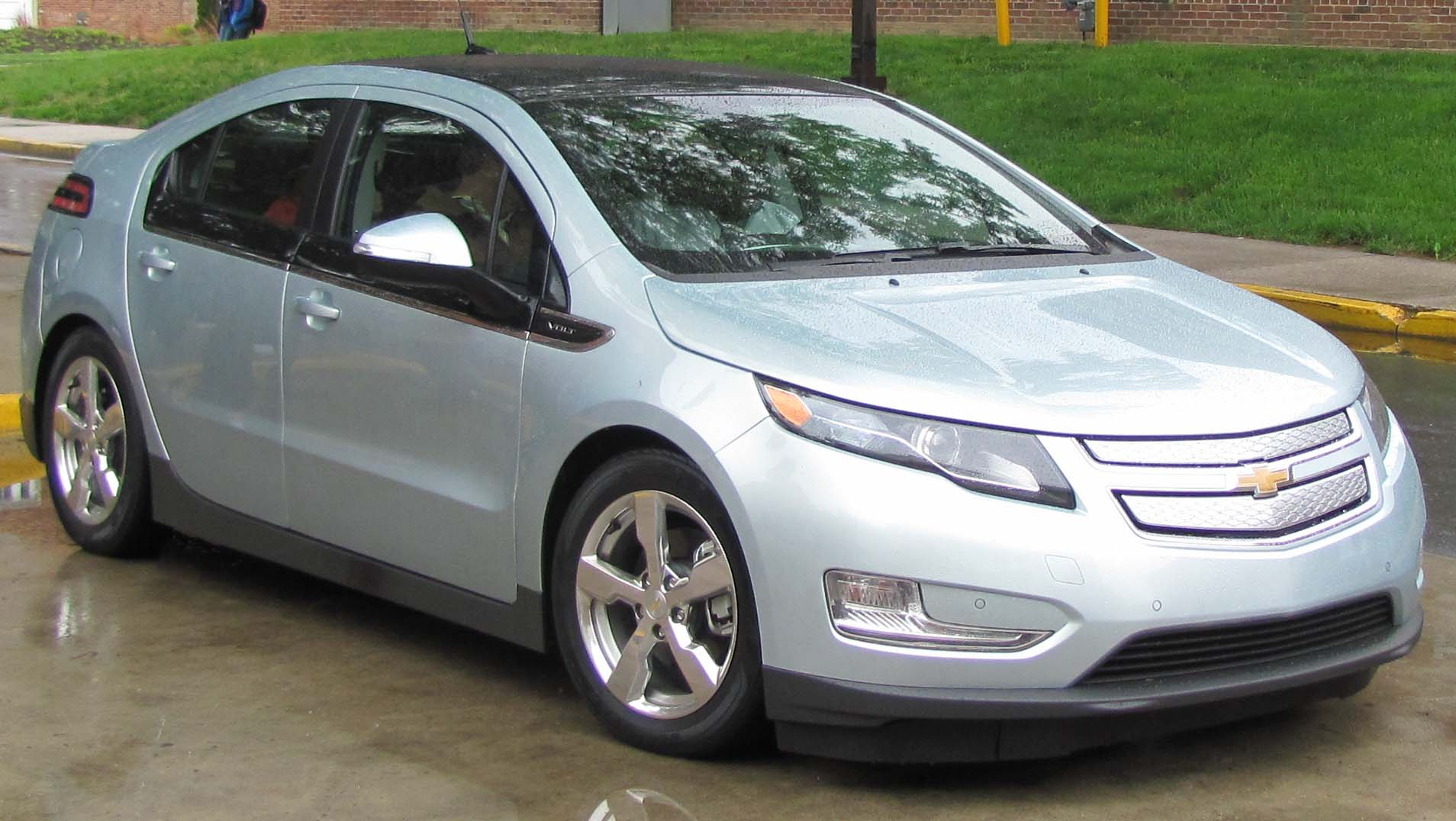 2011 Chevrolet Volt photographed in College Park, Maryland, USA.